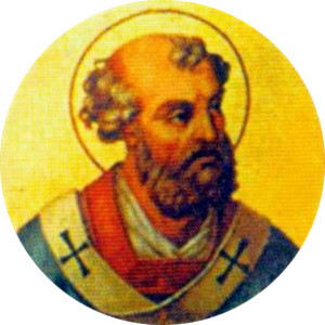 Portait of Pope Hilarius in the Basilica of Saint Paul Outside the Walls, Rome